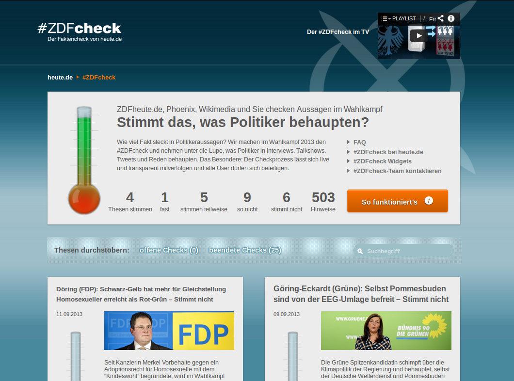 Screenshot